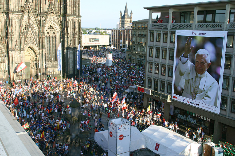 World Youth Day 2005 in Cologne, Germany, view onto the Roncalliplatz and part of the Domplatte thanks to KölnTourismus for the permission to take this picture from their roof